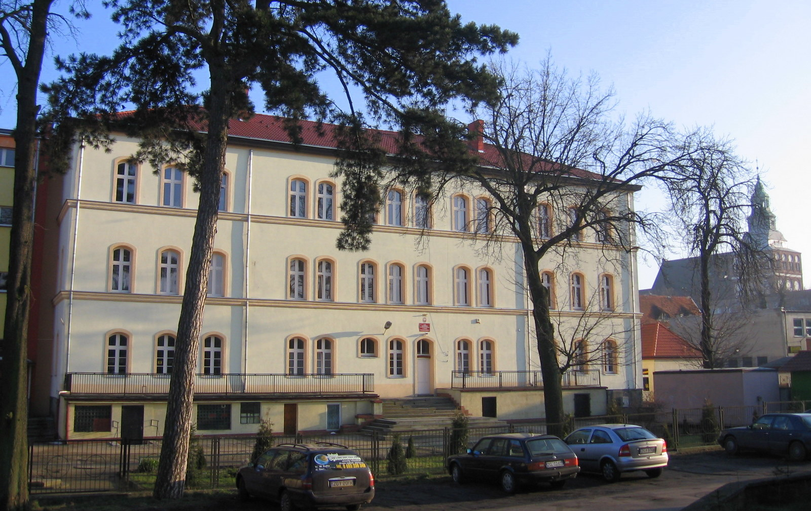 Lyceum (high school) of Bolesław I the Brave in Gryfice, Poland